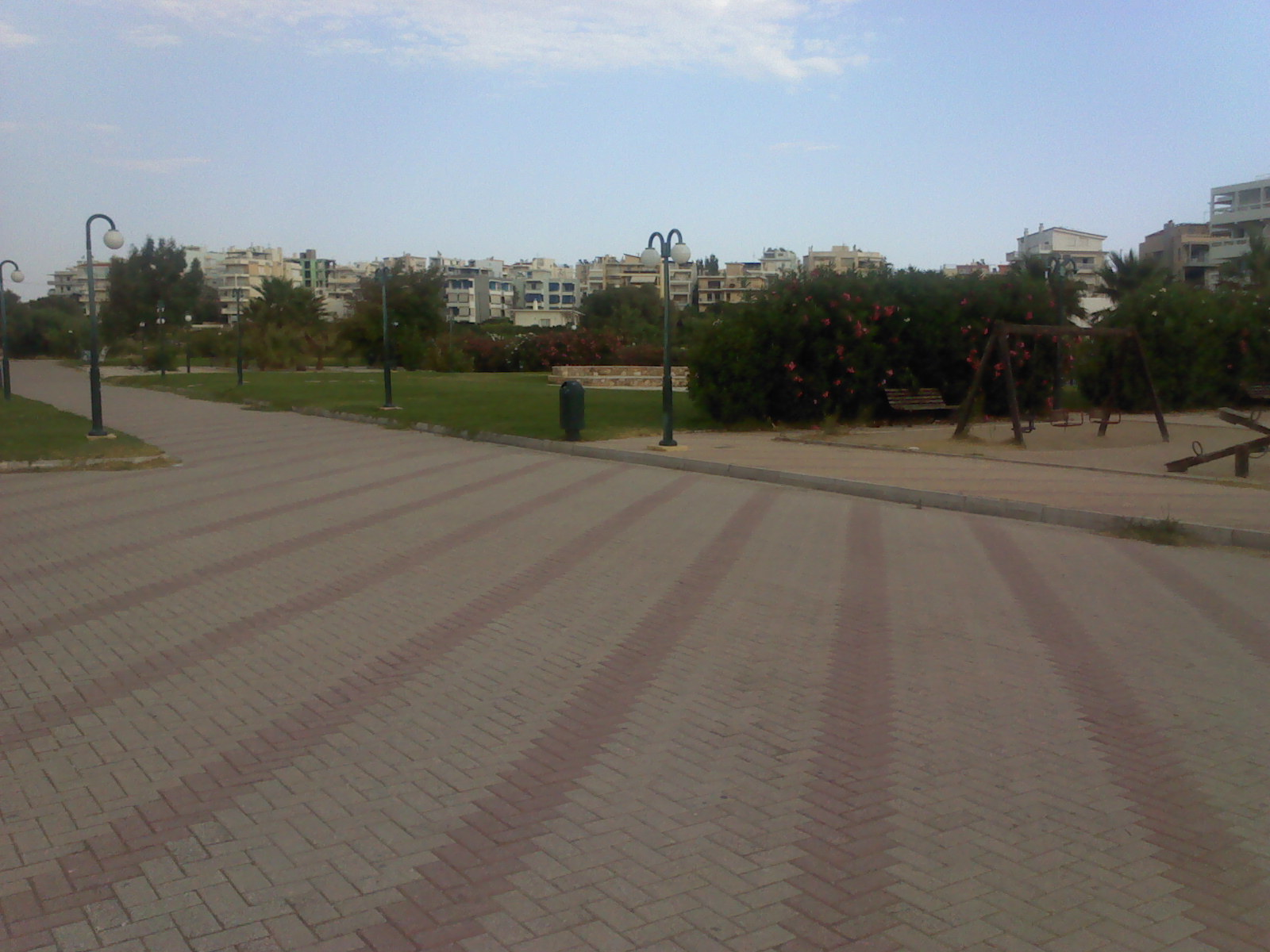 Park Karamanli in Rafina